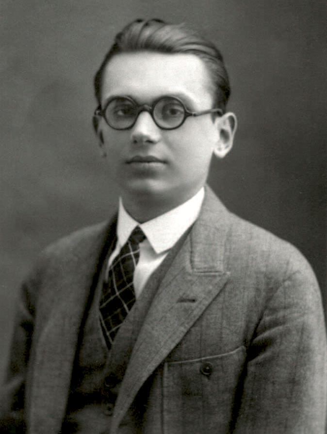 Portrait of Kurt Gödel, one of the most significant logicians of the 20th century, as a student in Vienna.